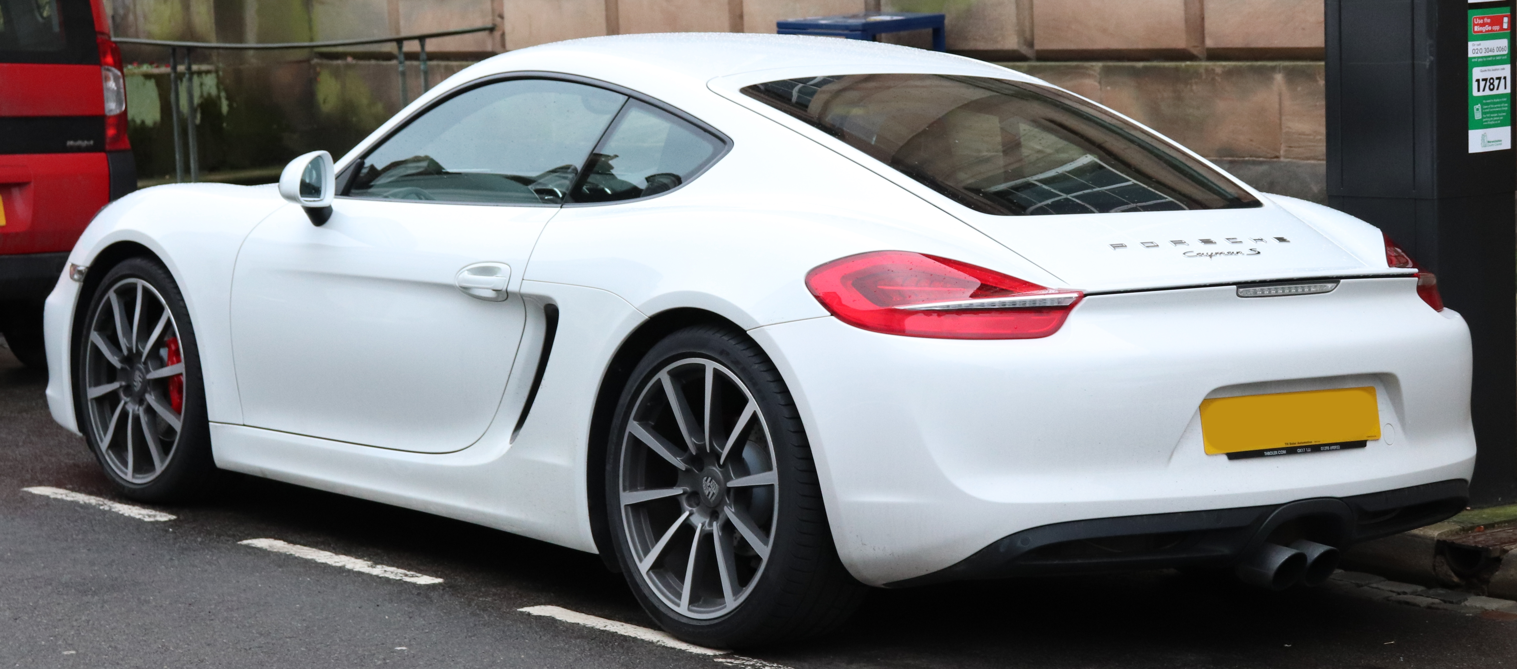 2013 Porsche Cayman S S-A 3.4 Rear Taken in Warwick